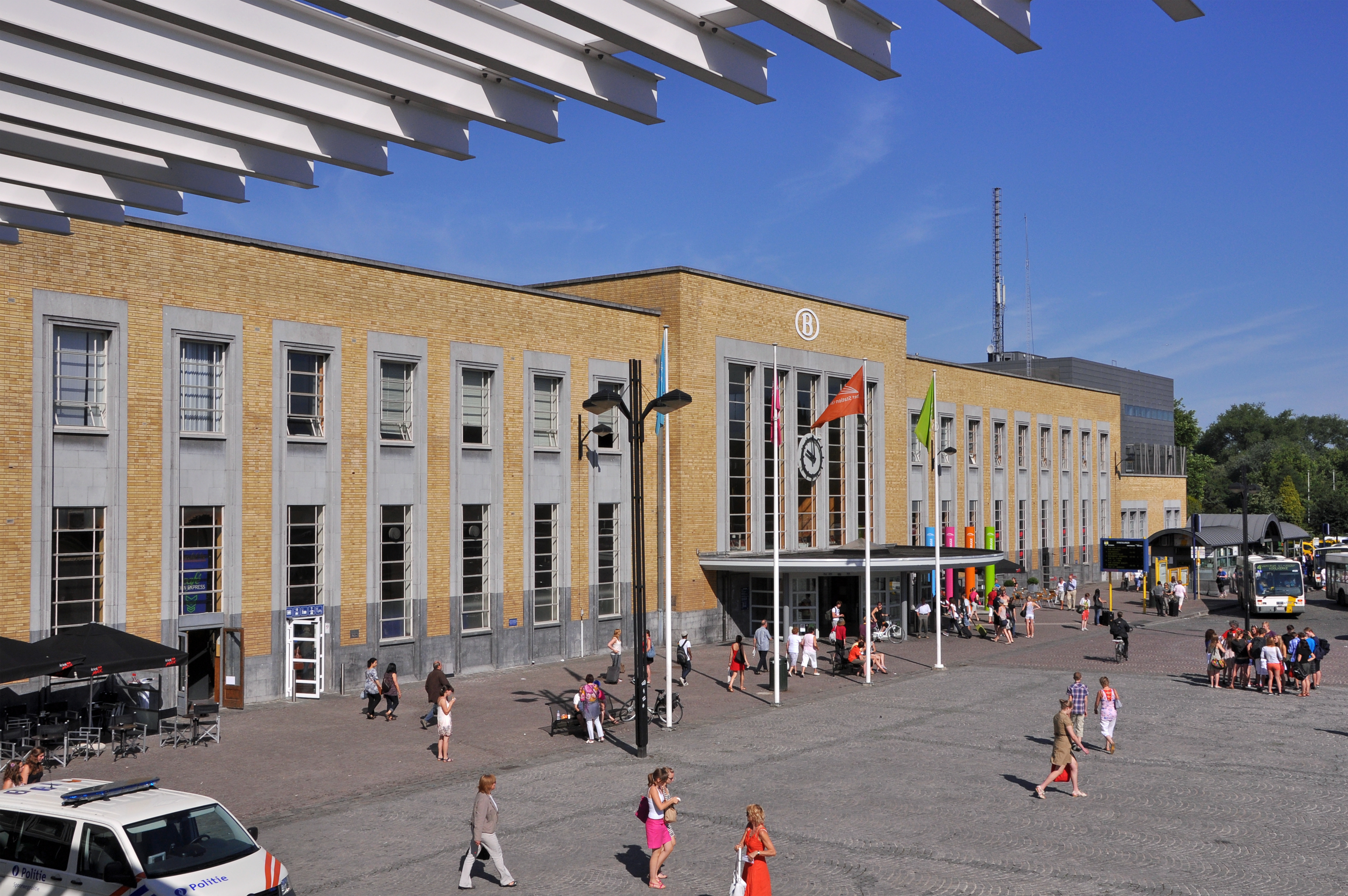 Bruges (Belgium): train station